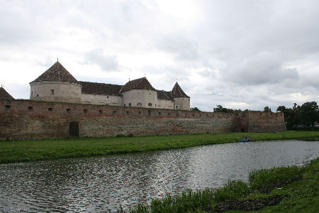 castle of Făgăraș/Fogaras/Fogarasch, Romania, from the East